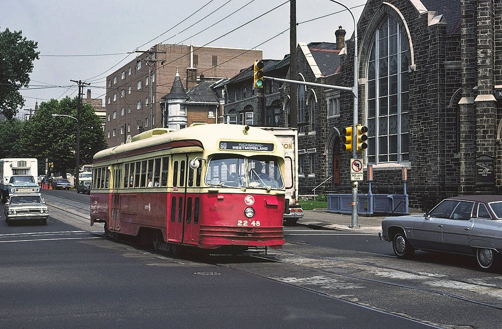 Philadelphia PCC-type streetcar/trolley (tram) No. 2248 (ex-Toronto, still in Toronto colors), on route 60-Allegheny Avenue